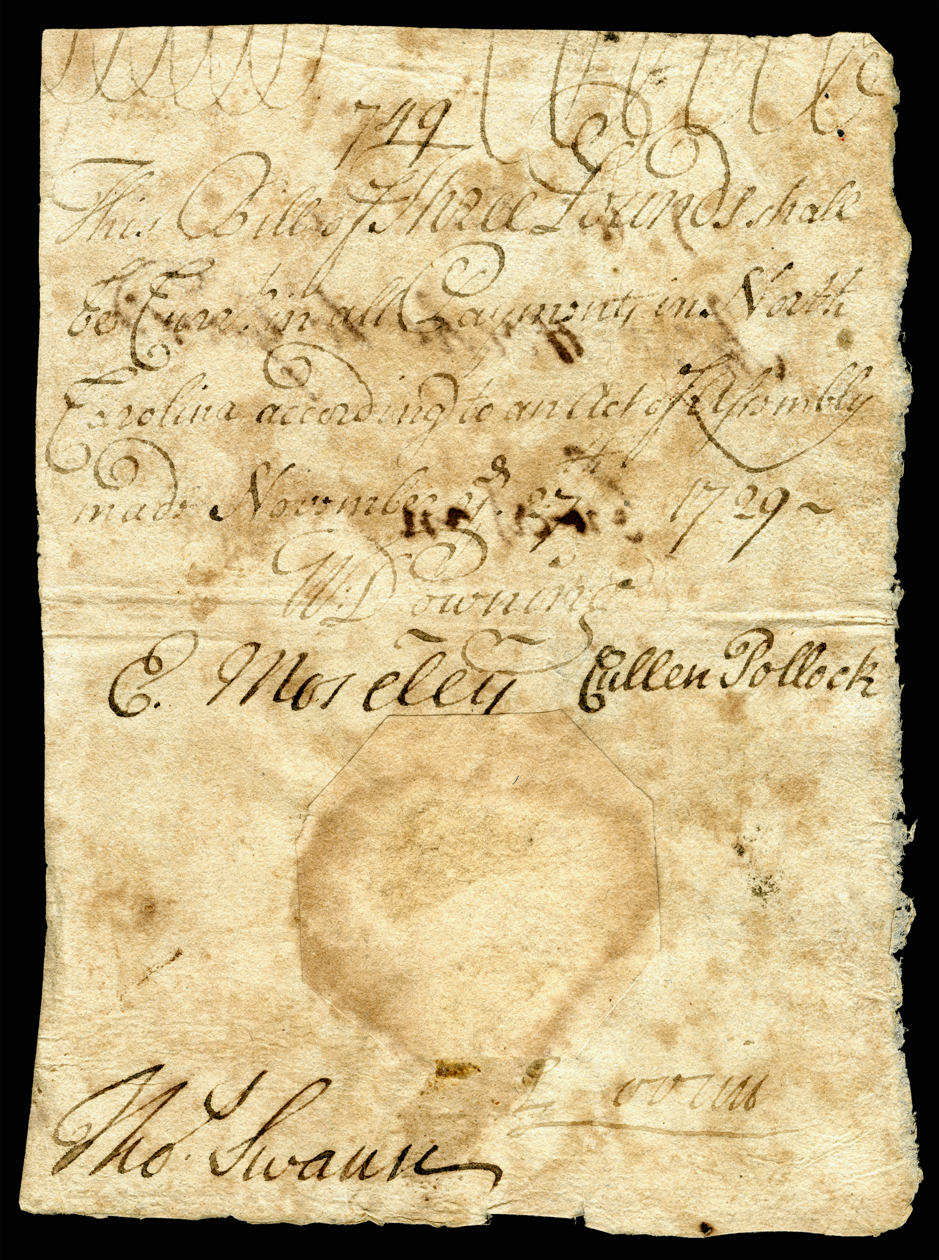 £3 Colonial currency from the Province of North Carolina. Signed by William Downing, John Lovick, Edward Moseley, Cullen Pollock, and Thomas Swann. Handwritten. (Friedberg Colonial ref# NC-33). Downing and Swann were both Speakers of the House of Burgesses, Lovick and Pollock were members.